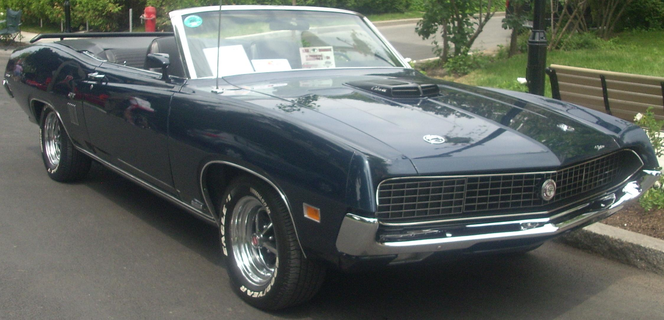 Ford Torino GT photographed in Ste. Anne De Bellevue, Quebec, Canada at Cruisin' At The Boardwalk 2010.